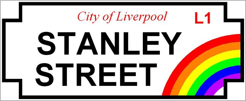 Official street signage for Stanley Street in Liverpool's Gay Quarter. Unveiled in November 2011 as part of Liverpool City Council's efforts to brand the area as an LGBT destination.